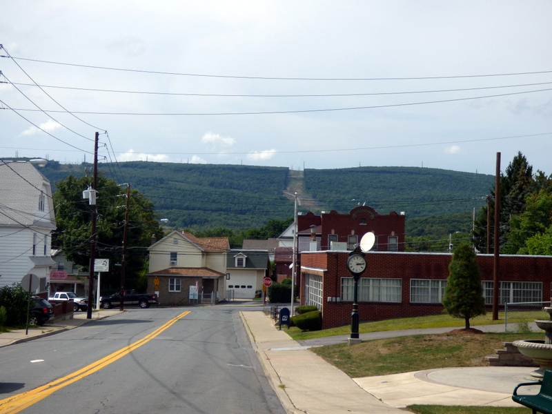 photo of jessup